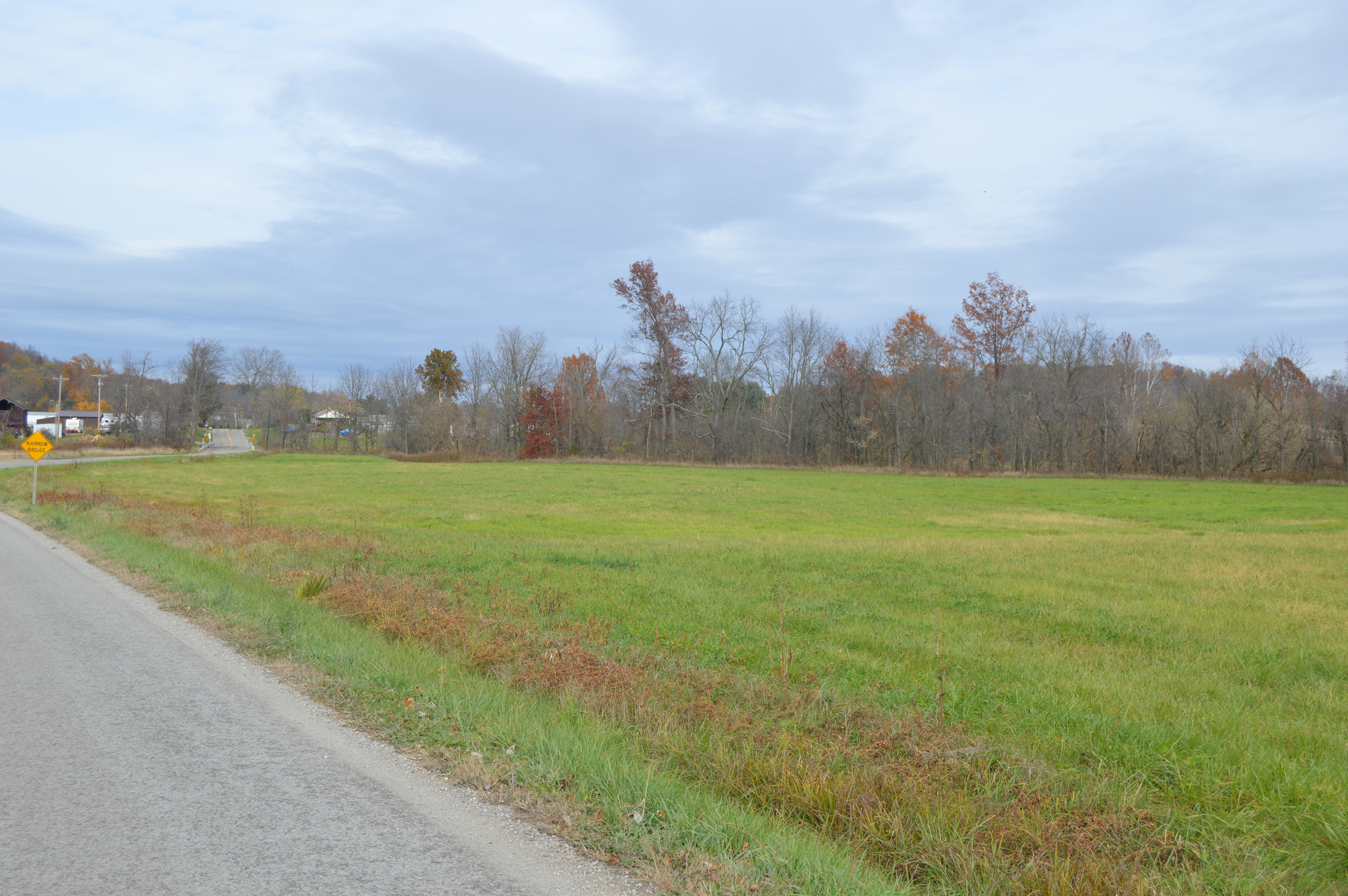 Looking northeast from the junction of Dynamite and Salem Roads in far northern Richland Township, Guernsey County, Ohio, United States.